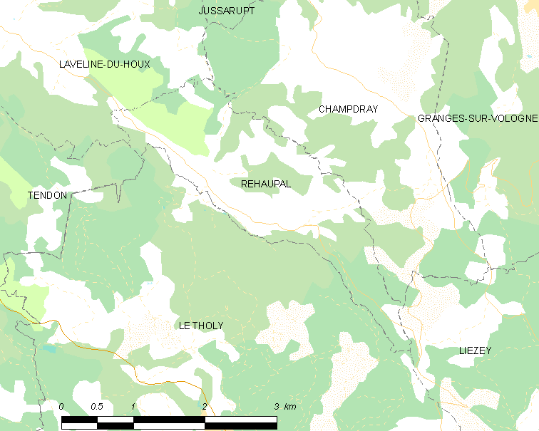 Map of French municipality Rehaupal